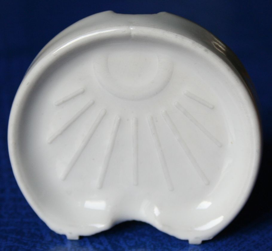 A gadget attached to a pot in which milk is boiled and which gives a signal when the milk is too hot and can be overcooked. Made from porcelain.